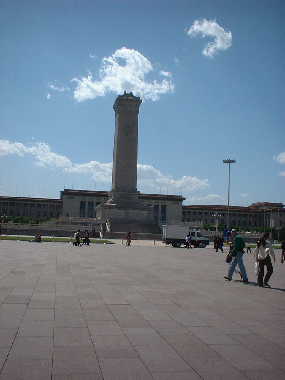 Tiananmen Square: Monument fo the Heroes of The Revolution